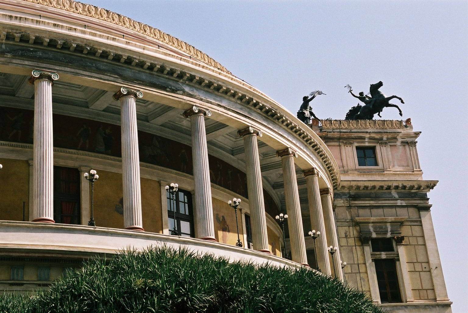 Teatro Politeama, Palermo Collonade at the exterior